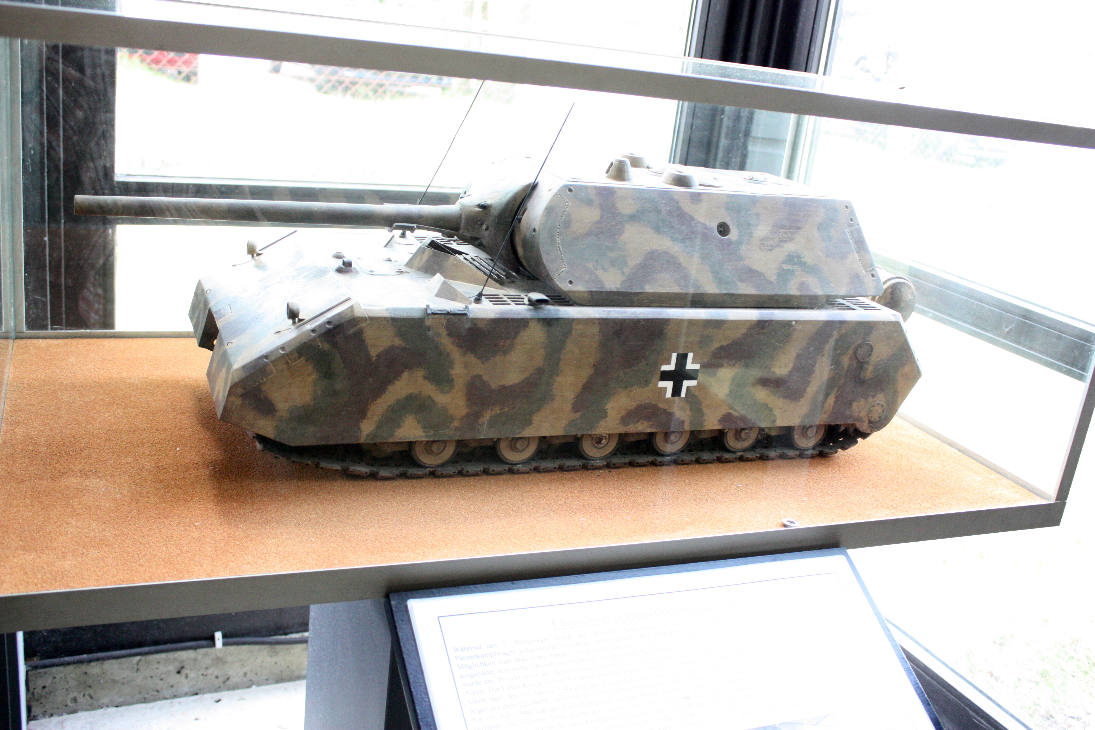 German Tank Museum